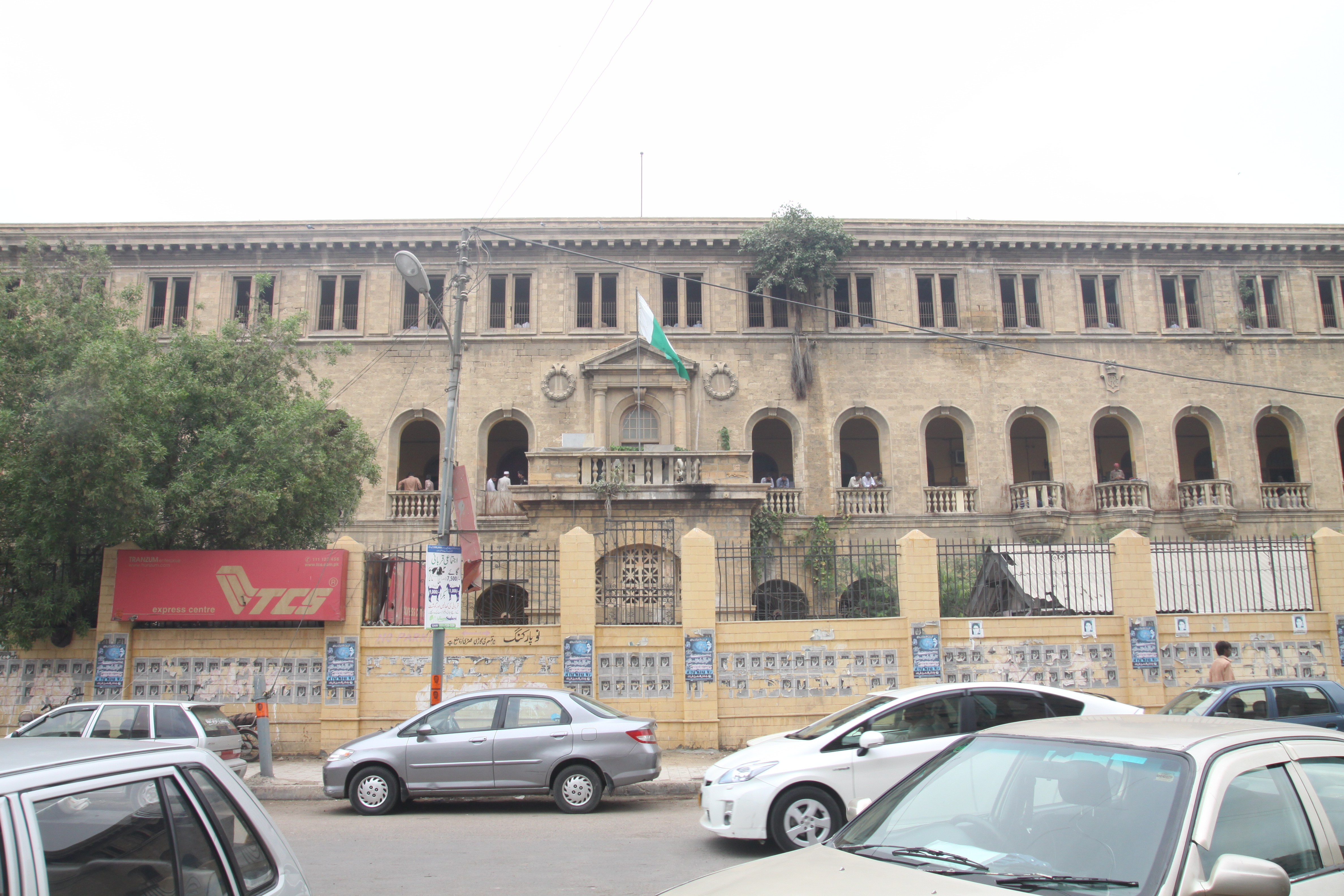 Asia Building This is a photo of a monument in Pakistan identified as the SD-P-9